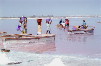 Boats on Lake Retba.